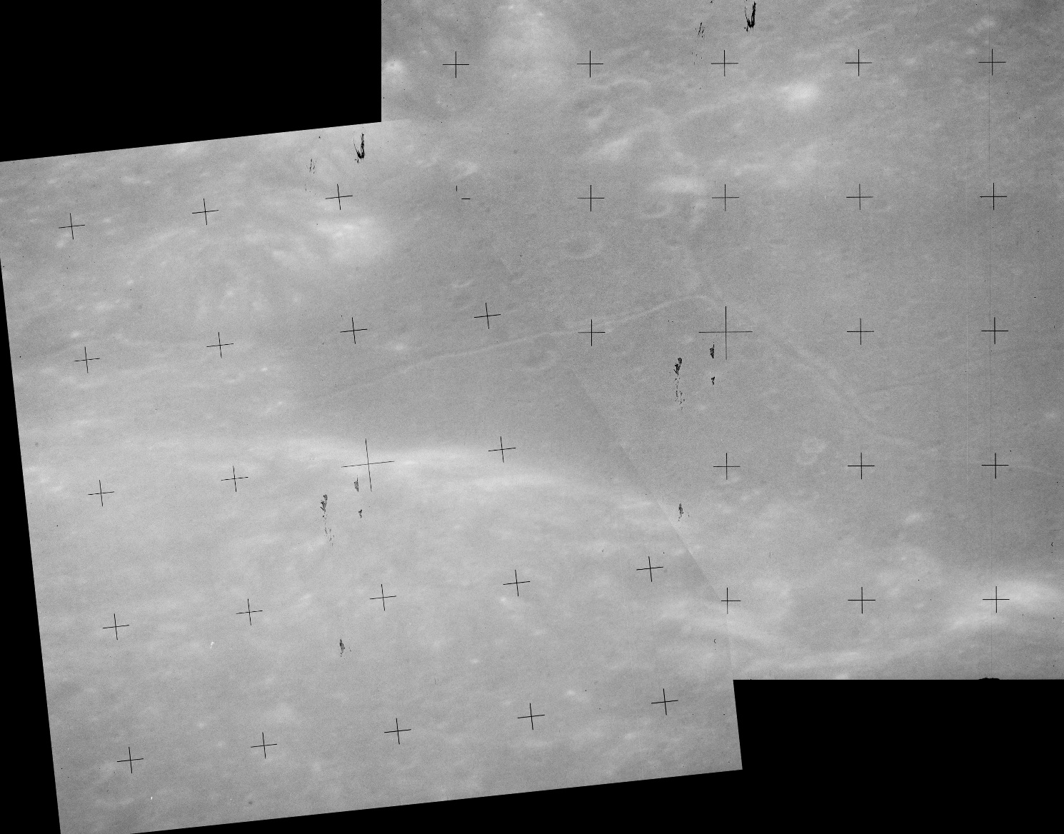 Mosaic of two Hasselblad camera frames showing much of Boscovich crater, on the moon. Brightness and contrast have been altered from the originals.